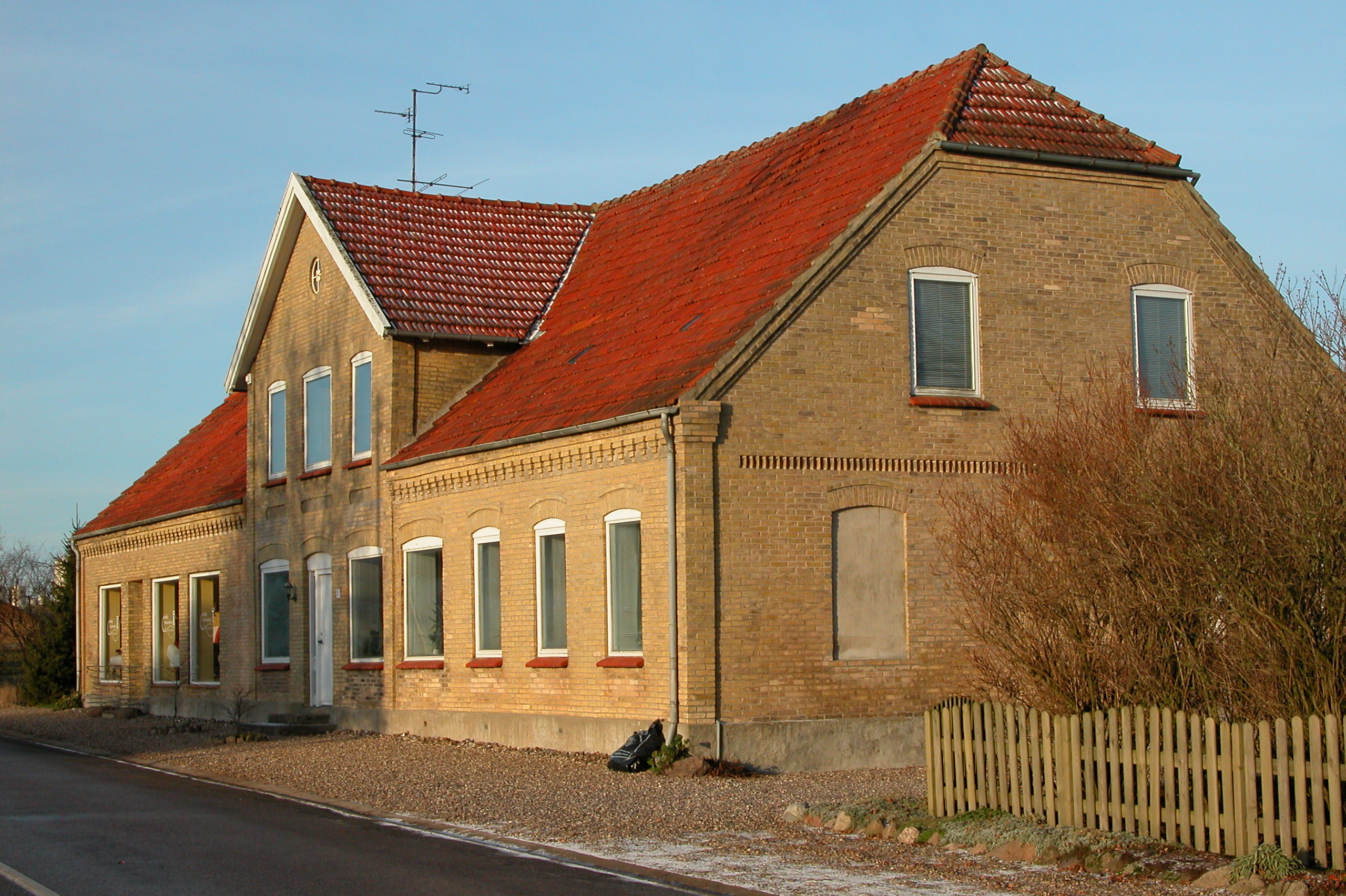 Øster Sottrup, Sønderborg Kommune